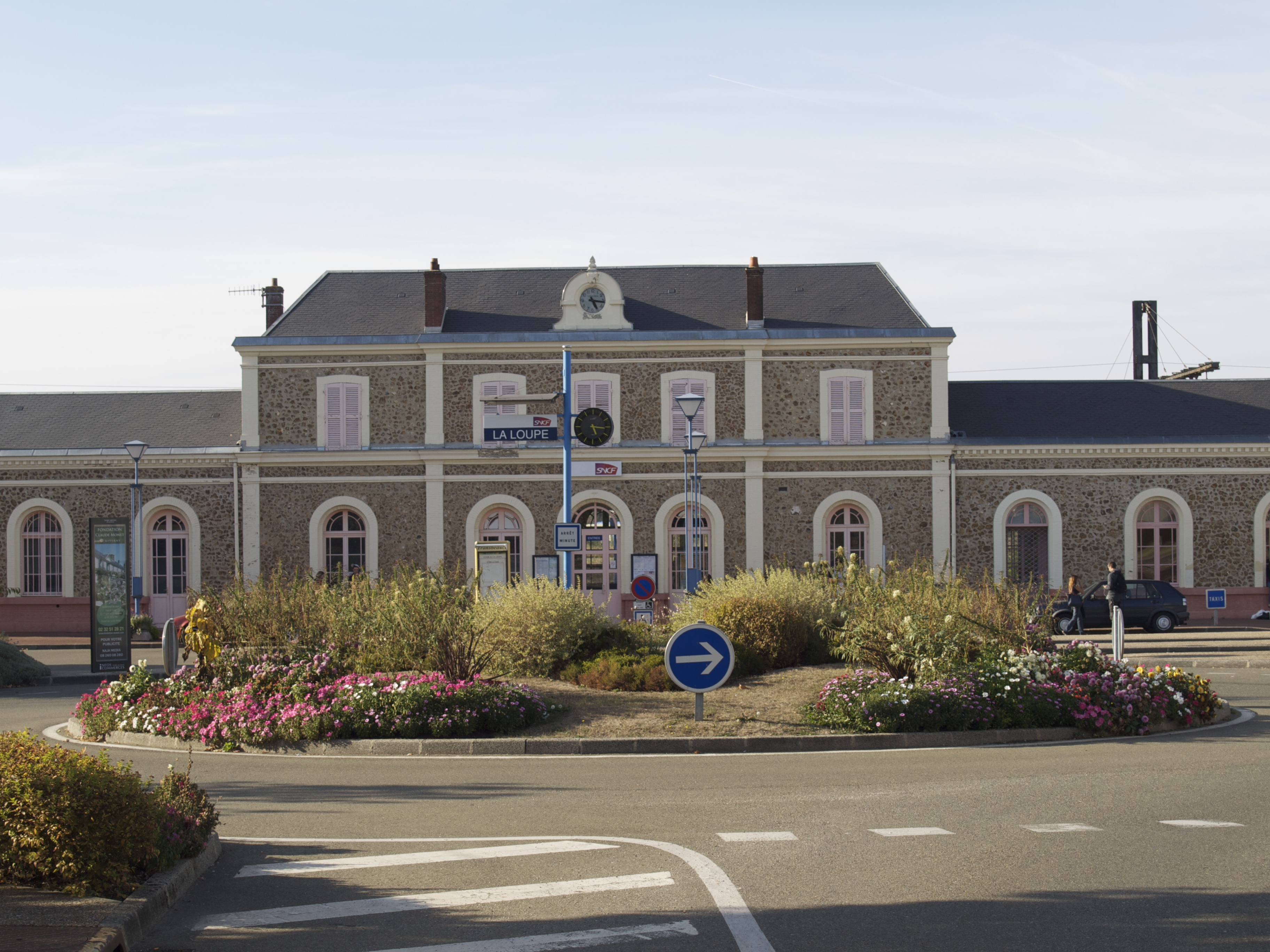 View of the train station of La Loupe, in the Perche d'Eure-et-Loir, France, from the Rue de la Gare.